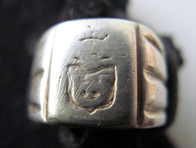 Signet ring Signet ring made in silver with Jastrzębiec coat of arms. This signet ring belonged to Czesław Jankowski h. Jastrzębiec. Hand made in 1943 at Nazi Prisoners of War Camp (for Polish officers). The silver was got from an old Polish coin and carved by one fellow prisoner. Yet the coat of arms is almost deleted (because silver is a soft metal), the spirit of resistance against who denied ancient Polish history and culture that impregnate this ring is remarkable.